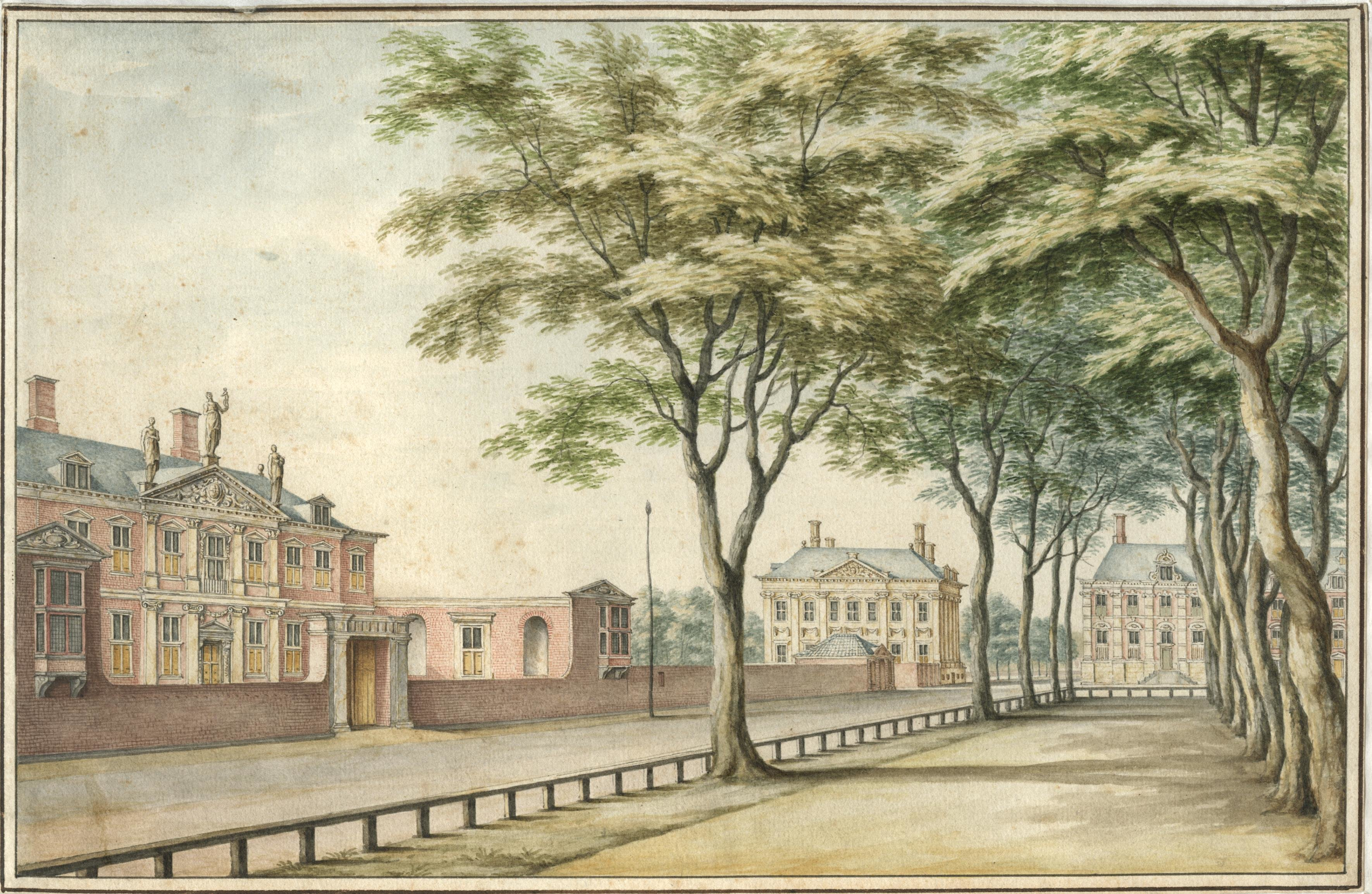 Plein square seen in the direction of Korte Vijverberg to the left Huygens House, in the middle the Mauritshuis and the far right of the house of Louis Adriaan Count of Nassau-Odijk. On the right there are trees on the Plein.